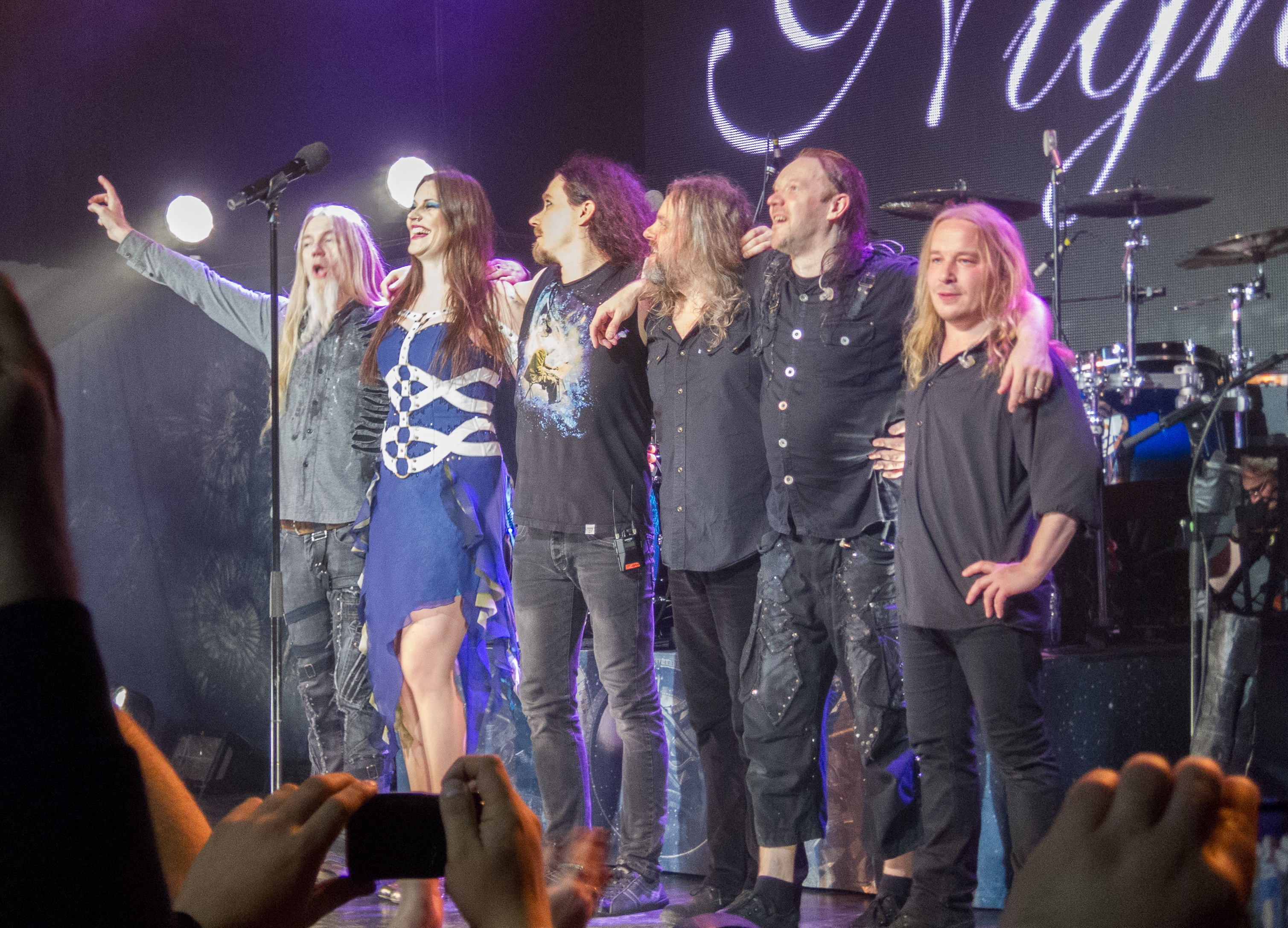 Nightwish performing at the London Music Hall in London, ON